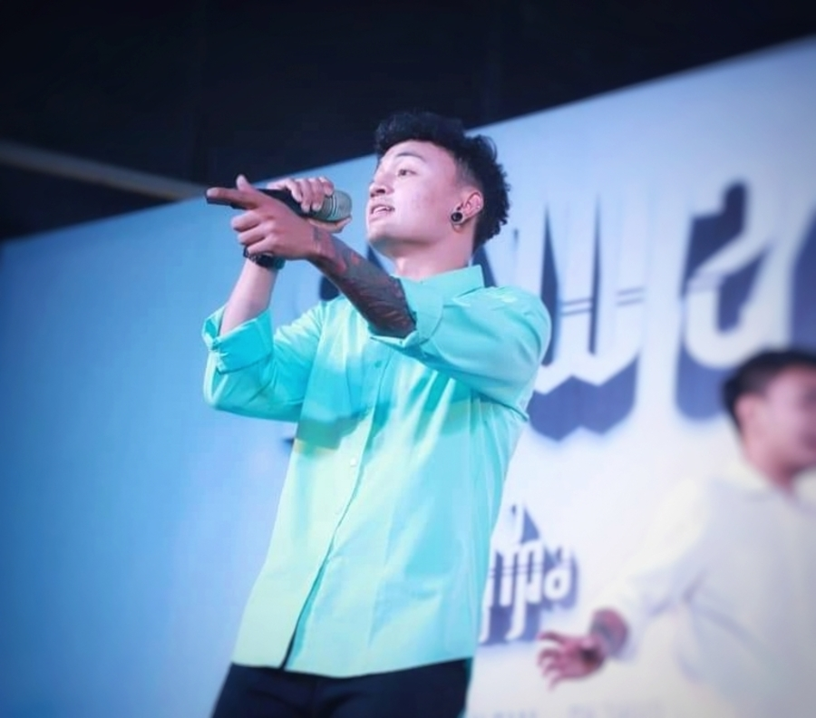 Yarwana is a popular singer in Myanmar.